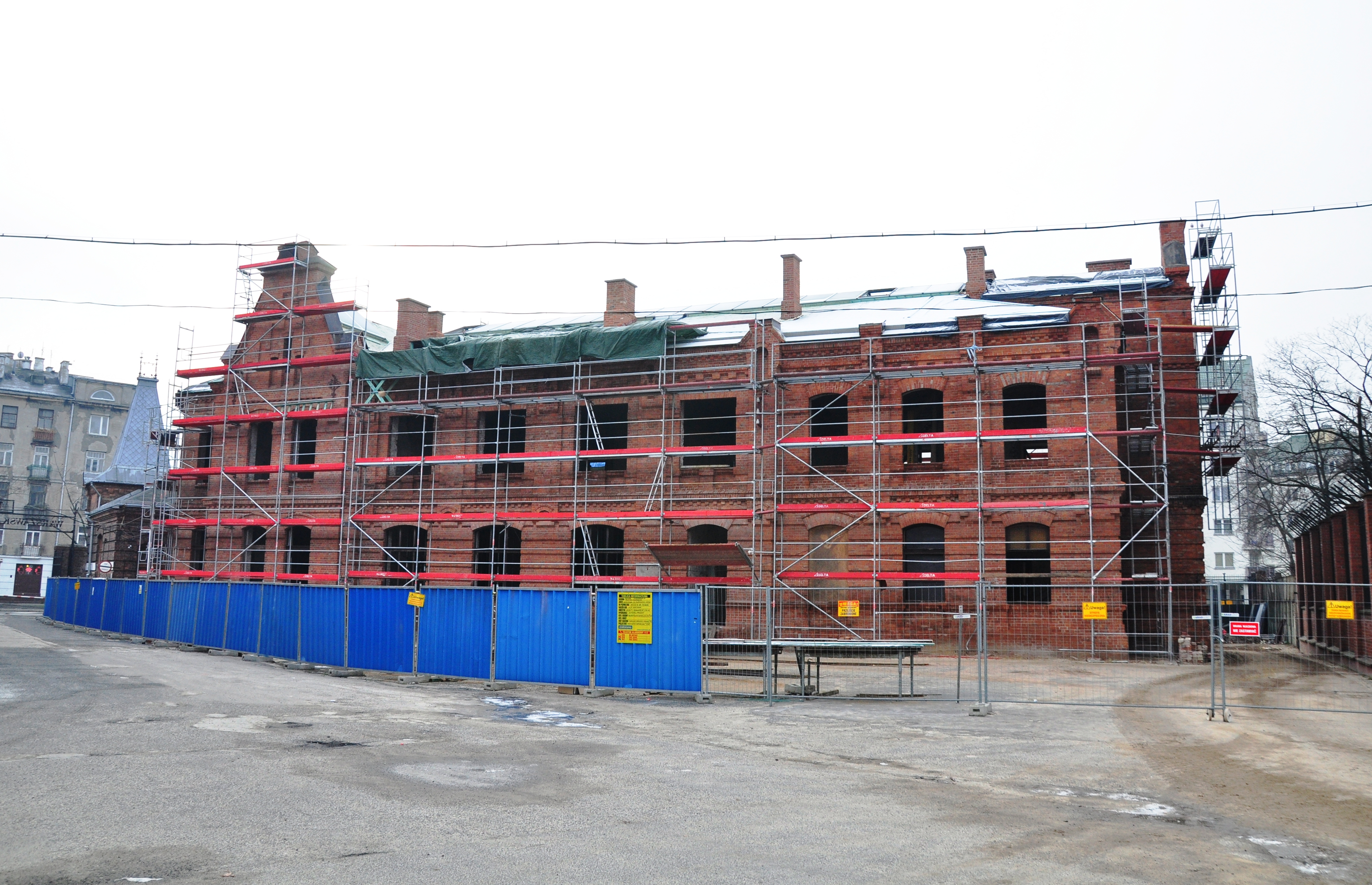 former wodka factory Koneser in Warsaw Praga